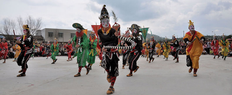 Puning-YingGe